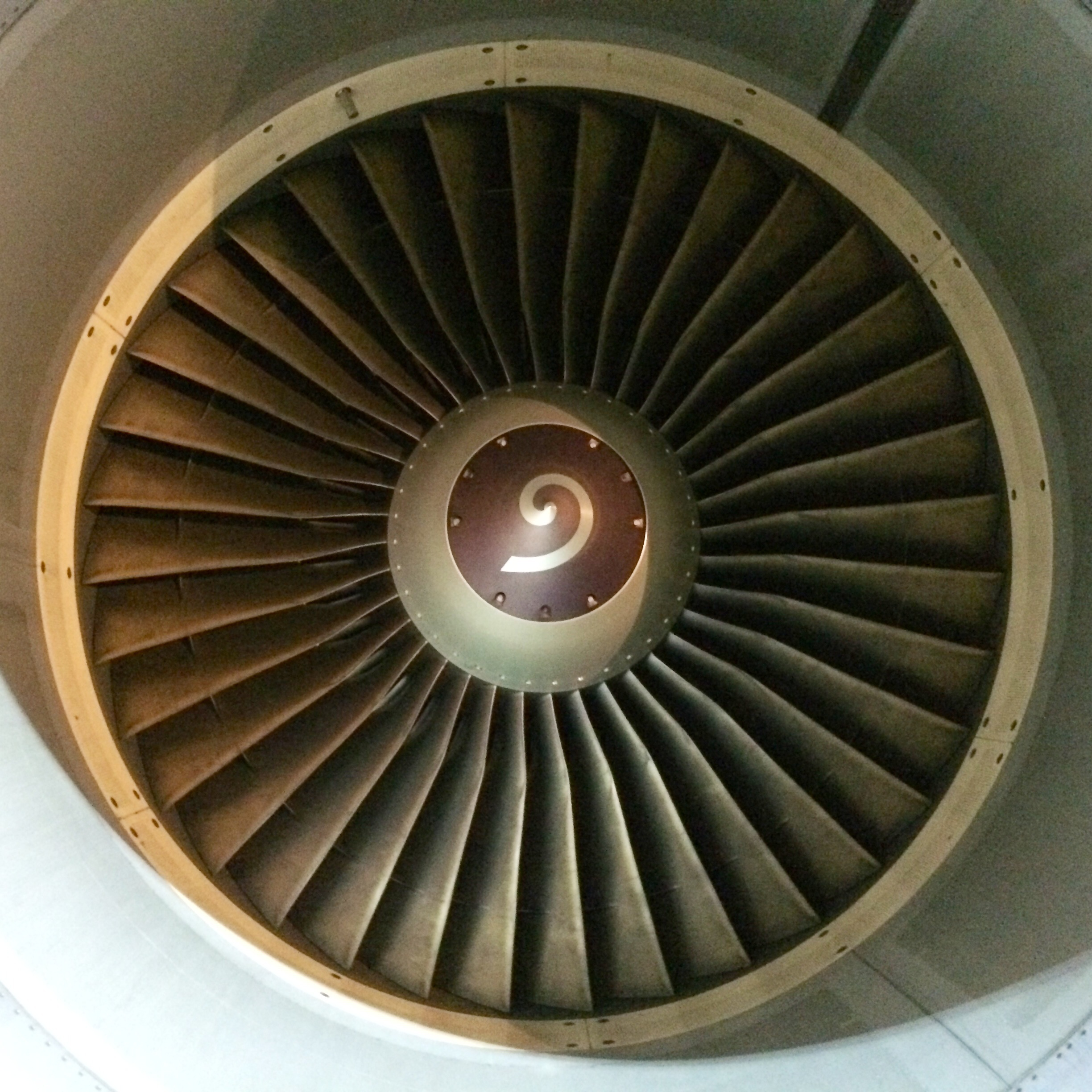 Lufthansa Airbus A320 D-AIZQ